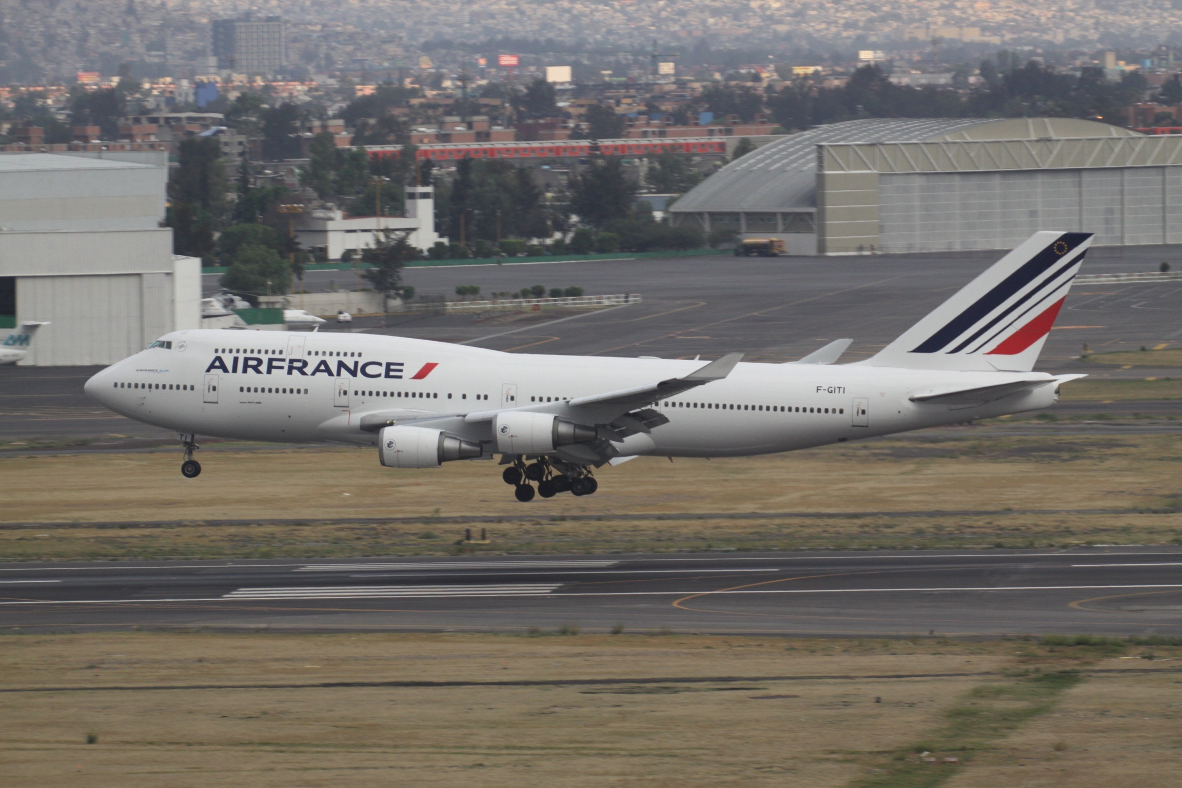 At Mexico City International Airport